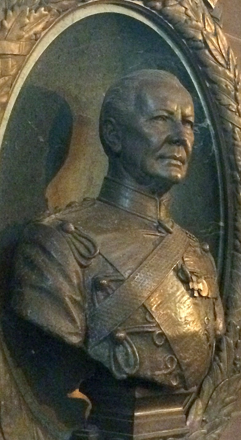 St Mary's Church Eccleston - Memorial to Hugh Grosvenor, 2nd Duke of Westminster, in the Grosvenor Chapel (detail of portrait bust)